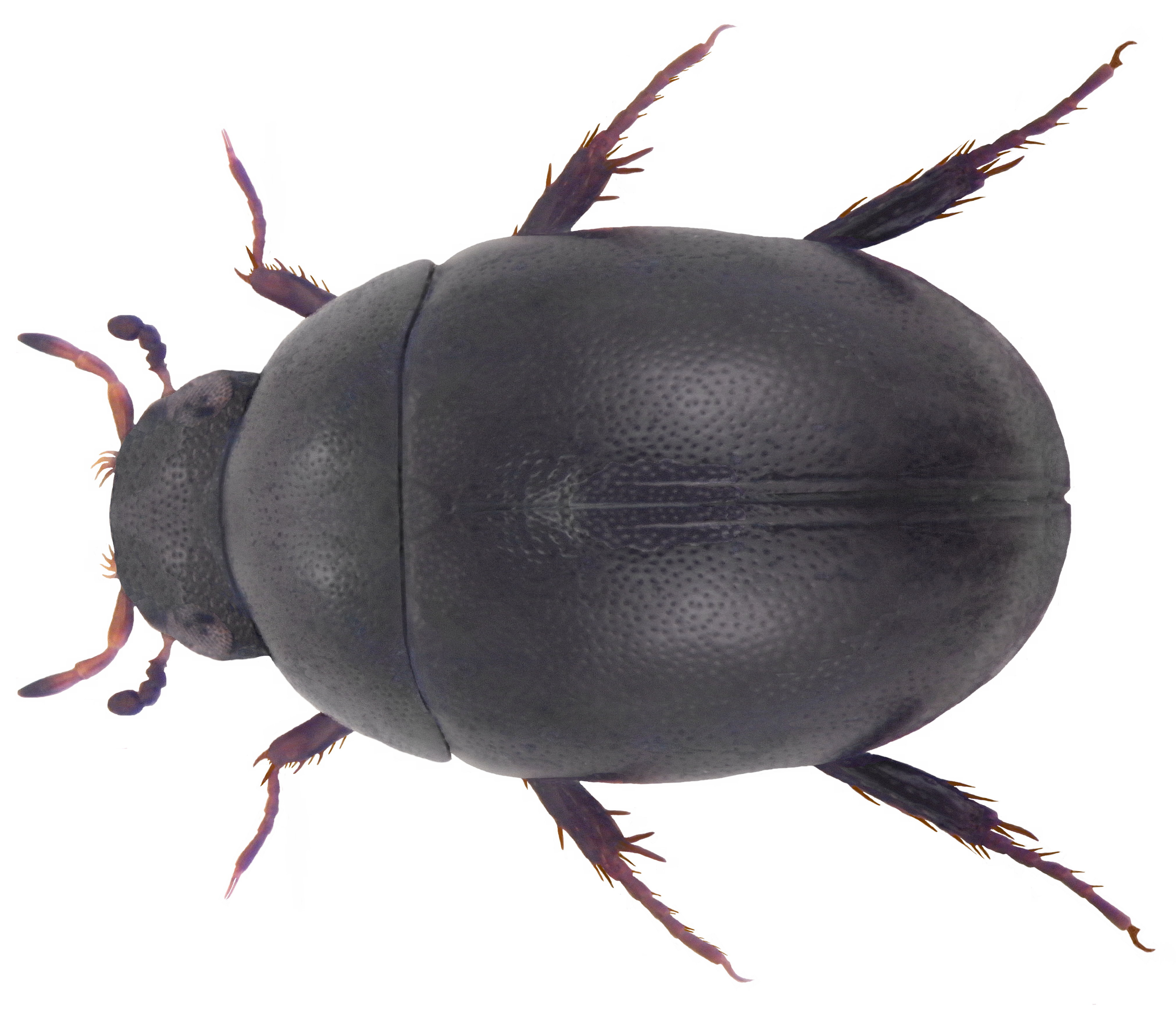 Paracymus scutellaris, a beetle in the family Hydrophilidae